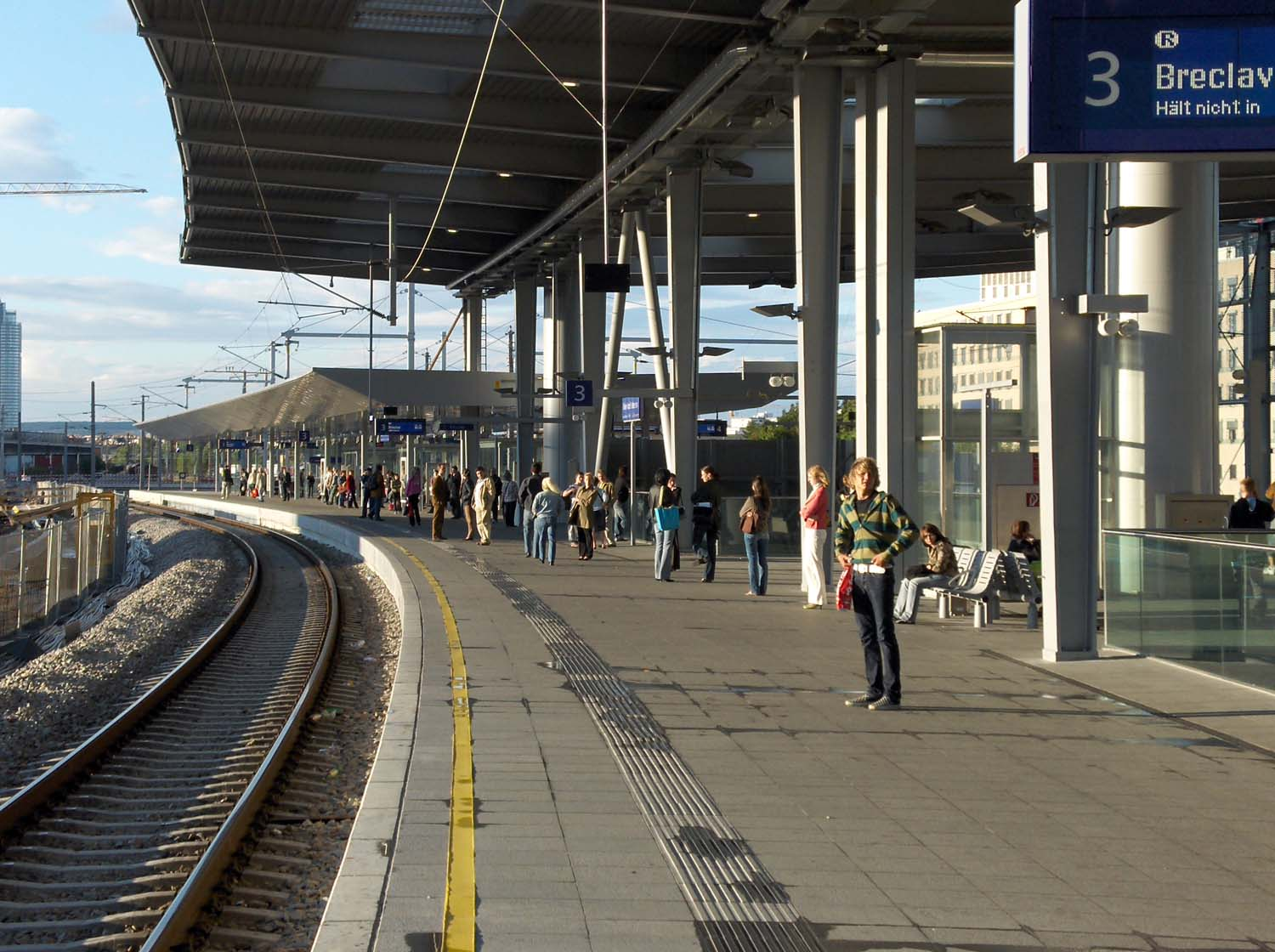 Wien Praterstern railway station, platform 3